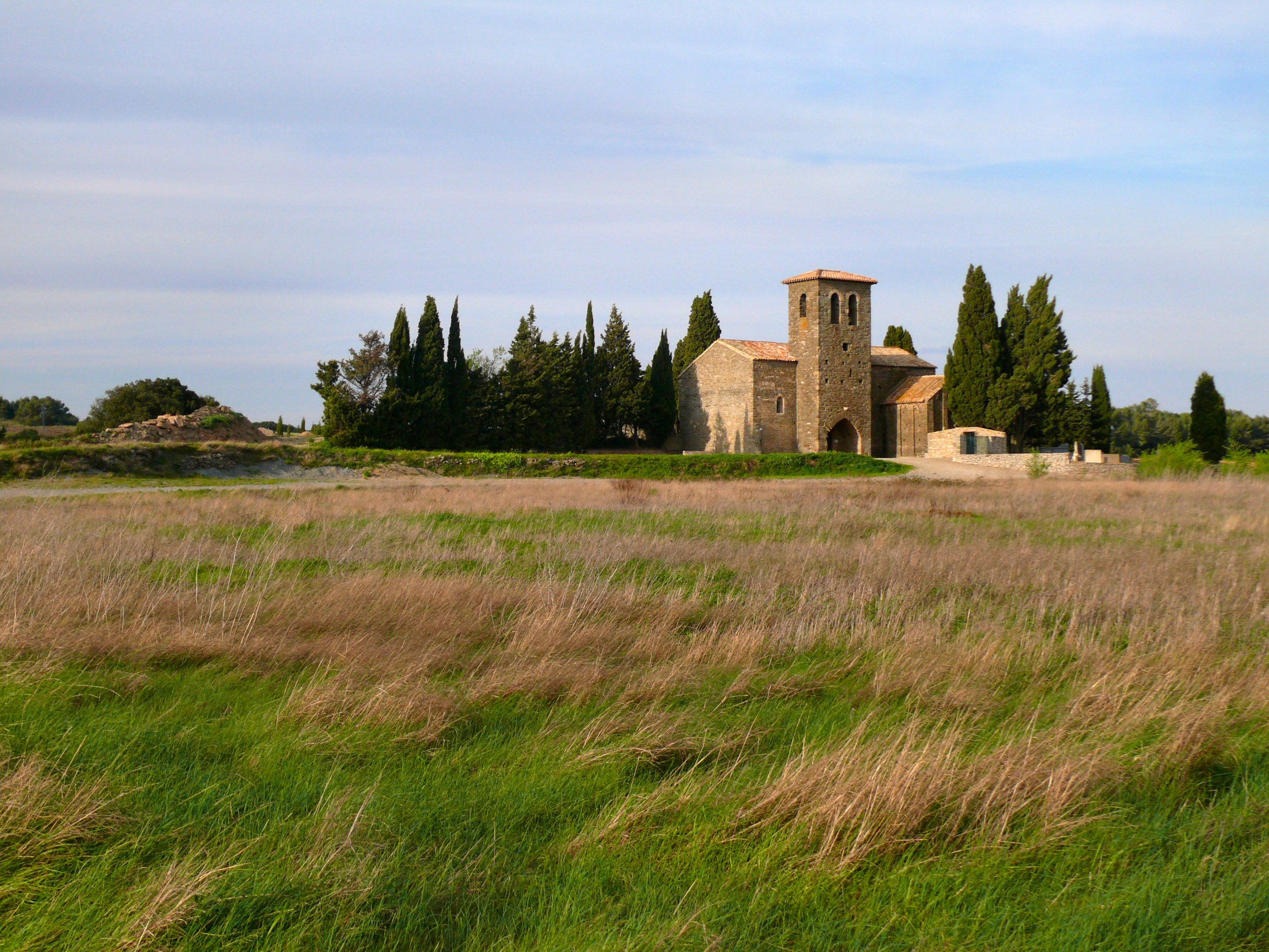 Rural church at Montbrun-des-Corbières, Languedoc-Roussillon, Aude, France, April 2010